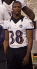 Baltimore Ravens running back Ray Rice is tackled by 2 San Francisco 49ers defensive players during Super Bowl XLVII.